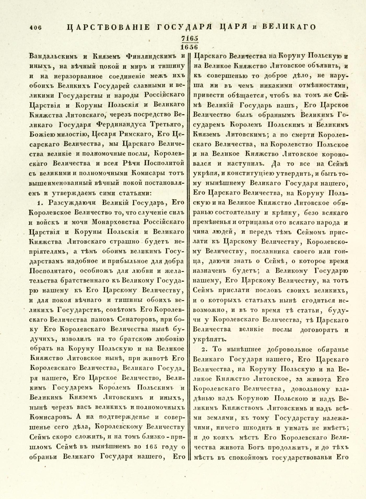 Complete Collection of Laws of the Russian Empire. Collect. 1. Т.1 nr 192 page 439, 1656 AD